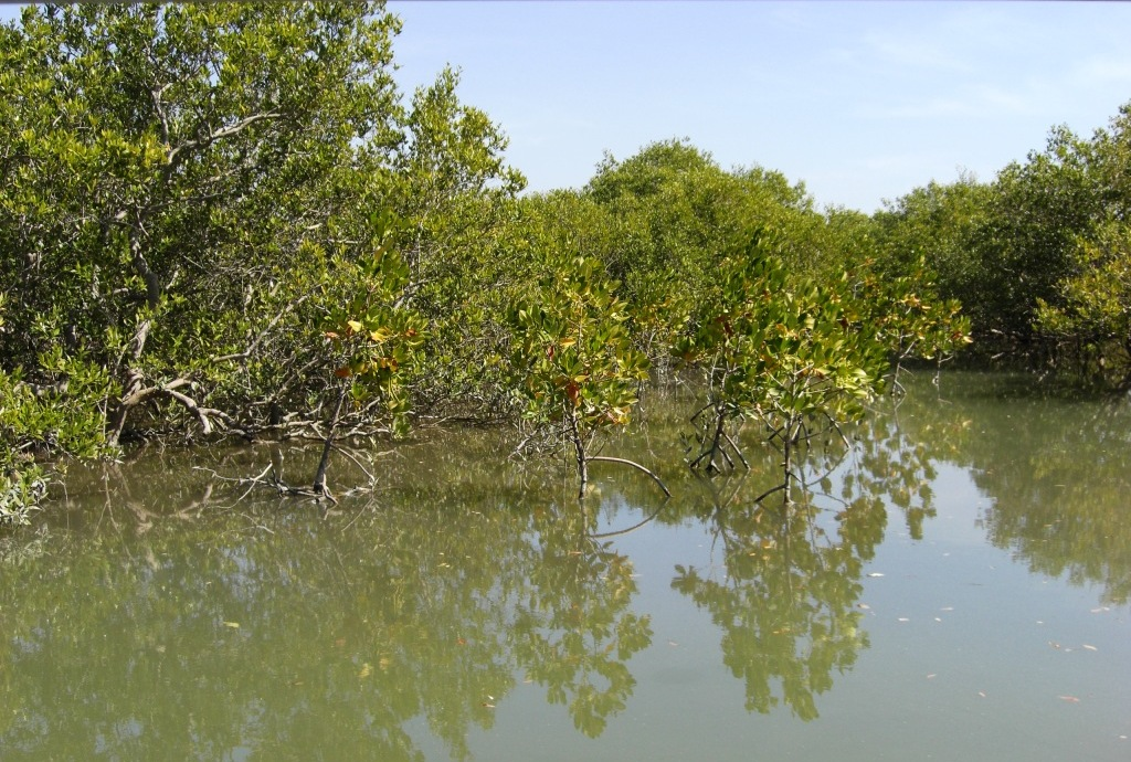 Glowing mangroves at Keti Bundar, Thatta, Pakistan